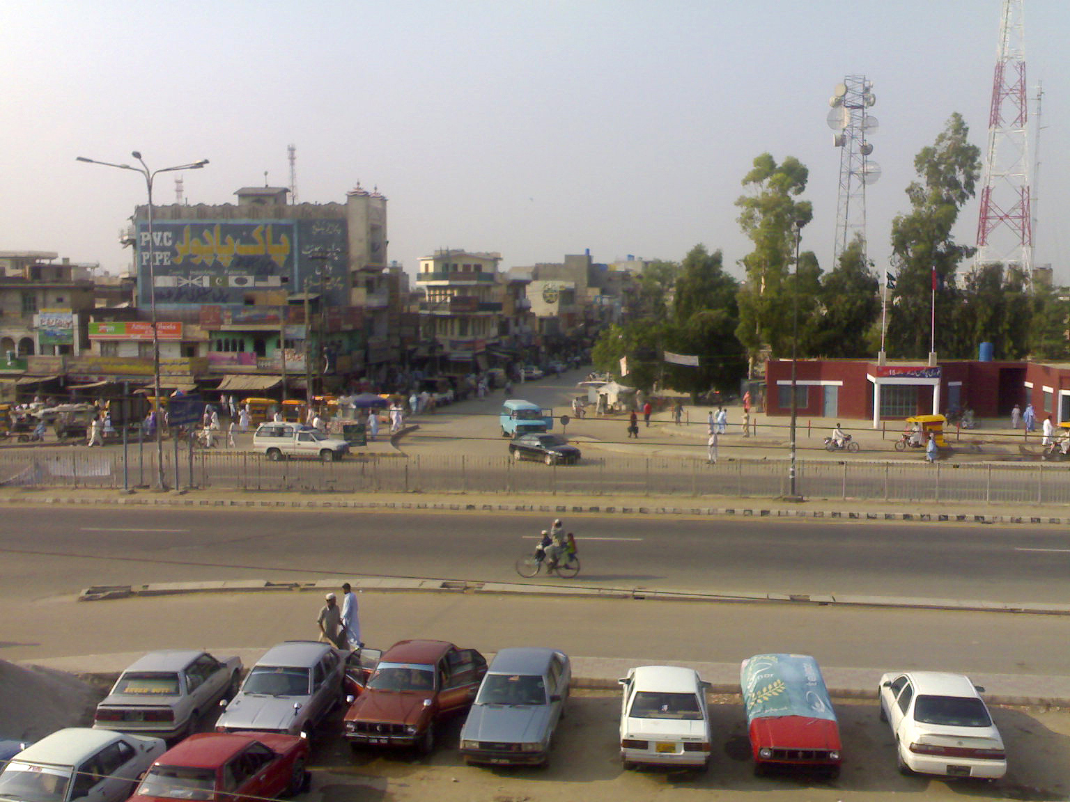 This is the Dina Chowk Grand Trunk Road. On left side road goes to Islamabad on right side road goes to Jhelum City on straight side road goes to Mangla (Mangla DAM).